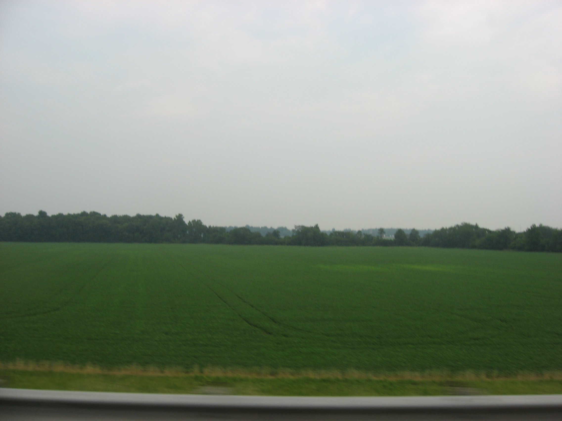 Woods and fields in central Riley Township, Sandusky County, Ohio, United States. Picture taken looking northward from the concurrent Interstates 80/90 (the Ohio Turnpike).